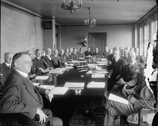 Board of Governors meeting 01/01/1922 Photo credit: Harris & Ewing